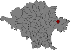 Location of Selva de Mar in Alt Empordà